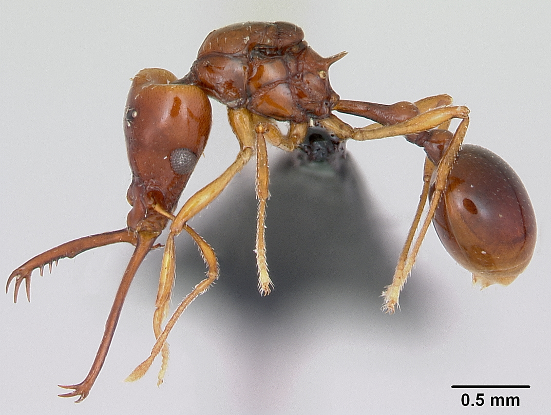 Profile view of ant Acanthognathus teledectus specimen casent0039800.